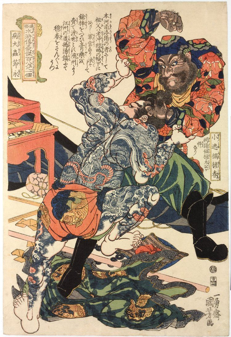 Xue Yong 薛永 (right) and the tattooed Mu Chun 穆春 (left) fighting barehanded.